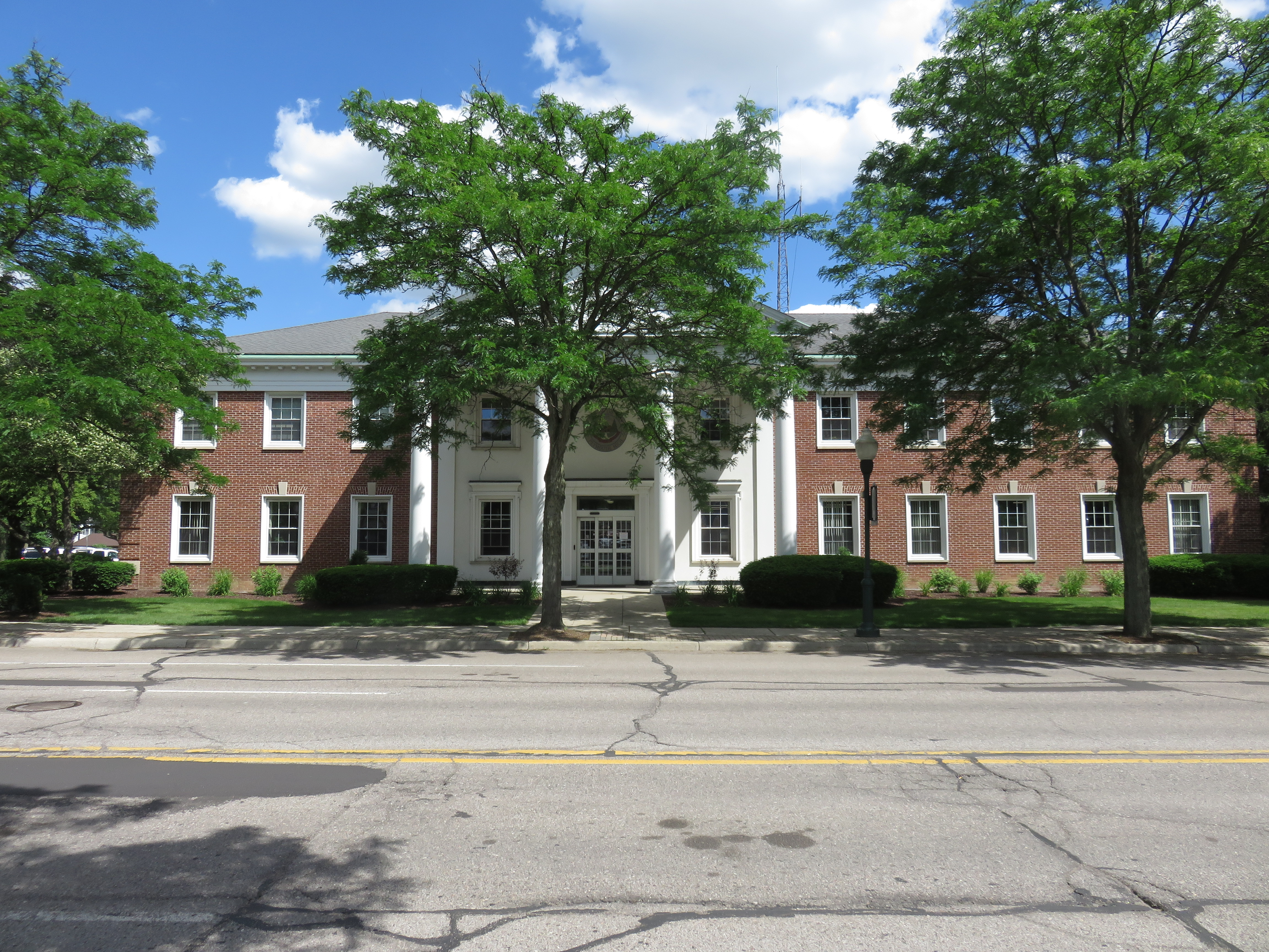 Plymouth, Michigan City Hall in 2019